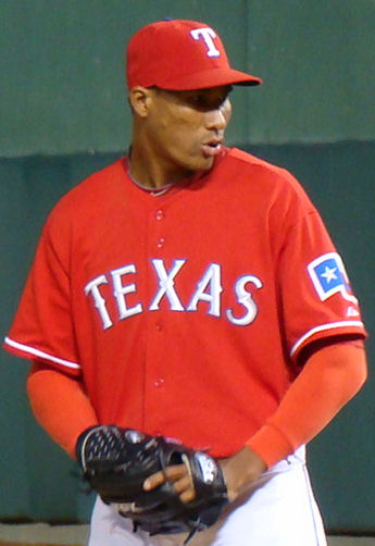 Alexi Ogando, Texas Rangers pitcher.